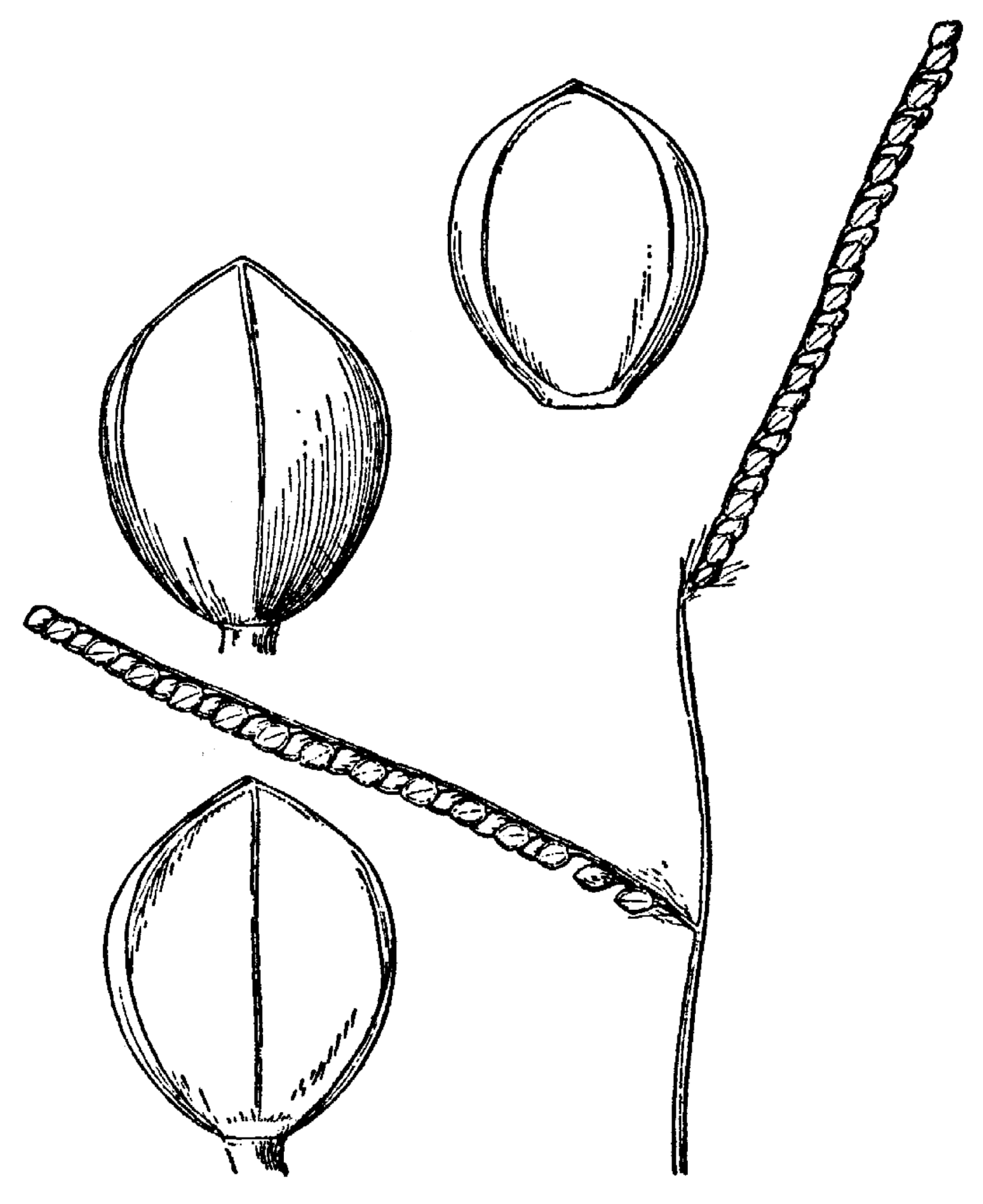 Paspalum longipilum Nash - field paspalum (syn. Paspalum plenipilum Nash, Paspalum laeve var. pilosum Scribn.)